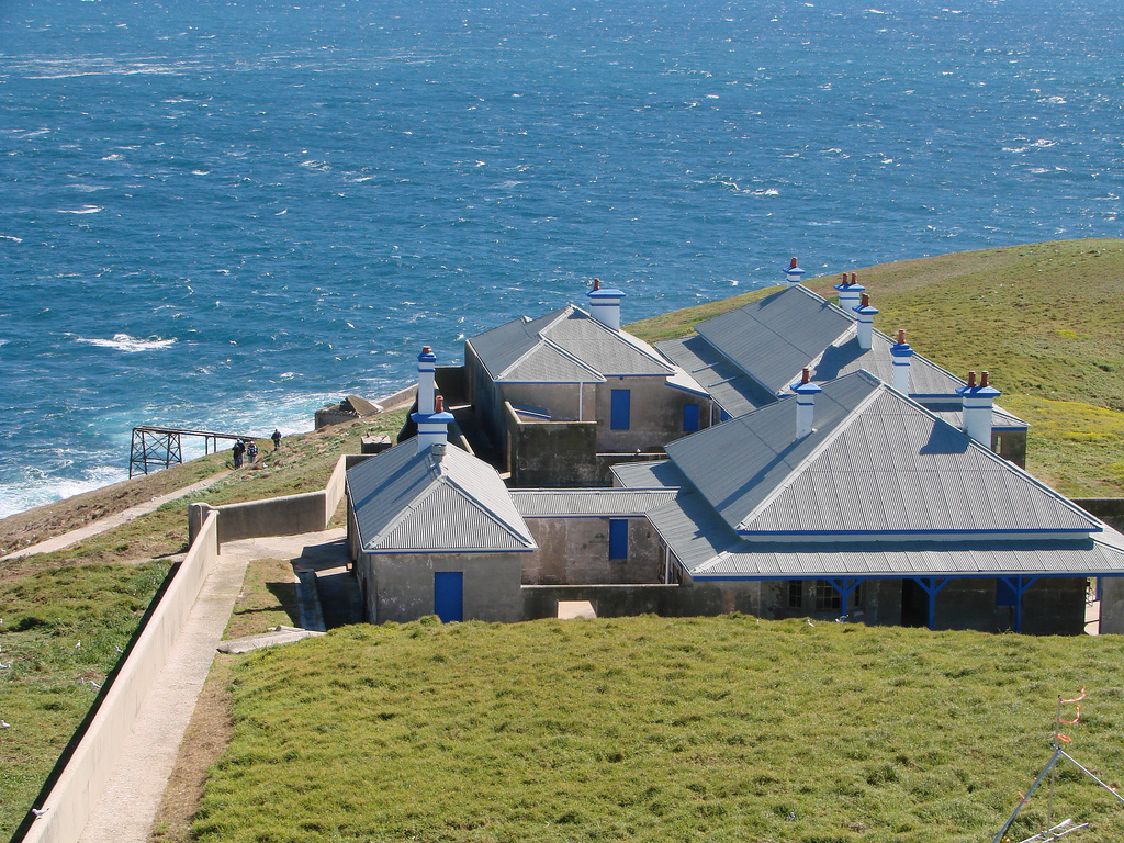 South Solitary Island cottages, 2008